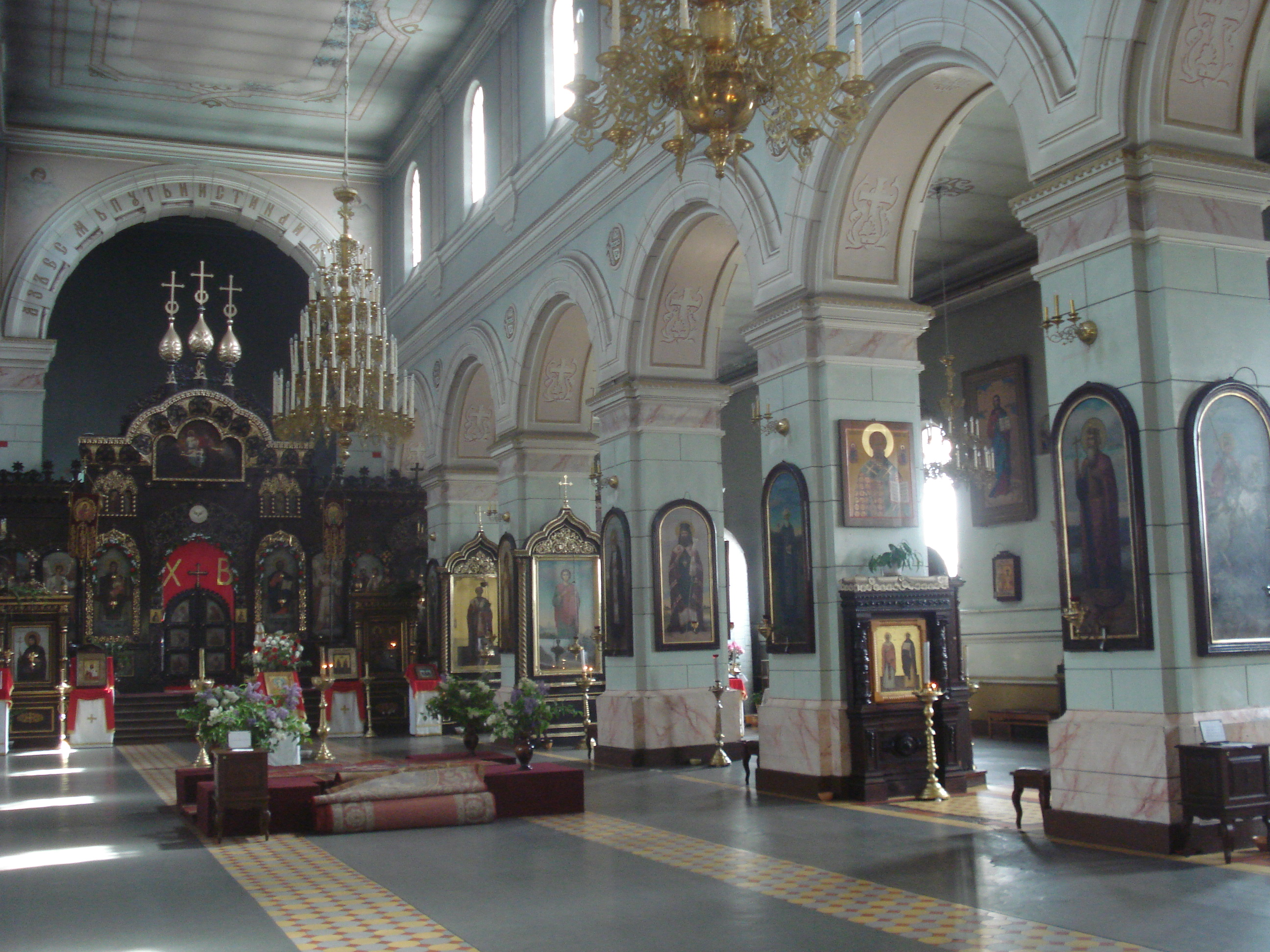 Ss. Boris and Gleb Orthodox Cathedral in Daugavpils, Latvia - Interior. The letters "X" and "B" stand for the paschal greeting: "Christ is Risen!" Tautas iela 2